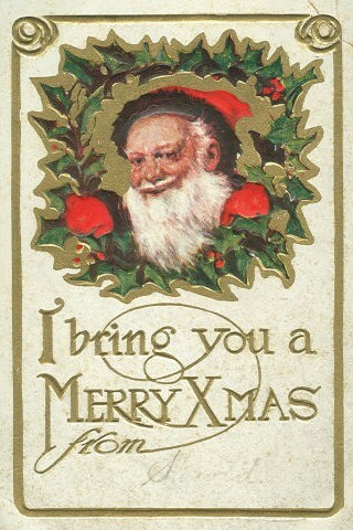 Christmas postcard picture with Santa Claus and holly, with message, "I bring you a Merry Xmas from"